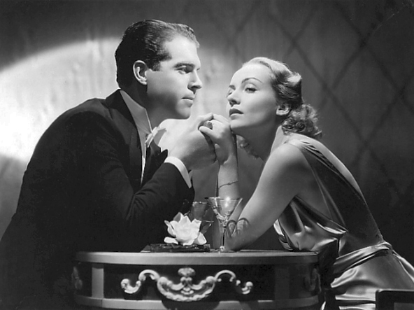 Carole Lombard and Fred MacMurray in a publicity still for the film Hands Across the Table (1935) Such images were taken on set during filming, or as part of an organized photo-shoot, by a studio photographer. They were then disseminated to the media and the public to promote the film (see Film still).